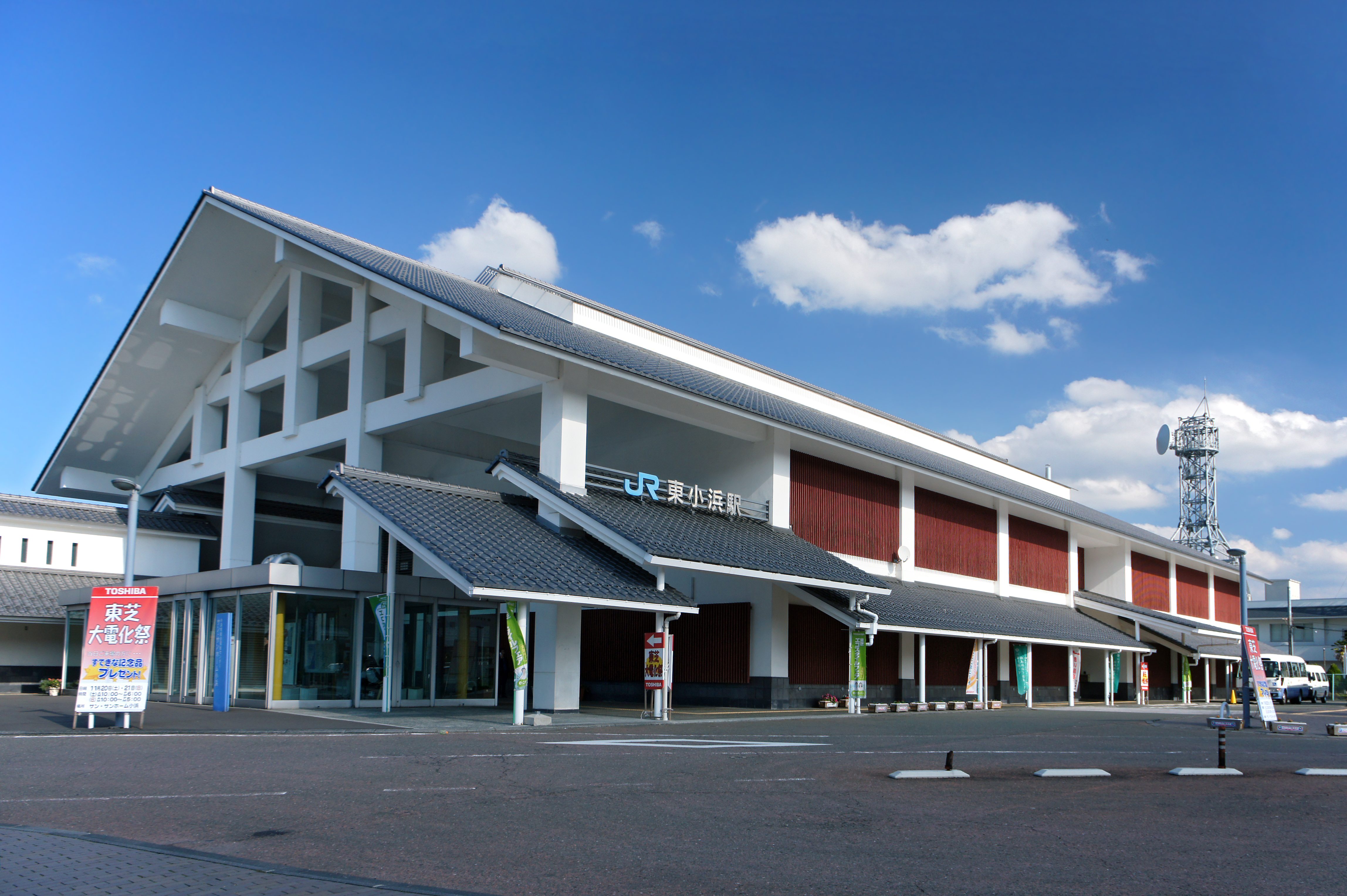 Higashi-Obama Station in Obama, Fukui prefecture, Japan